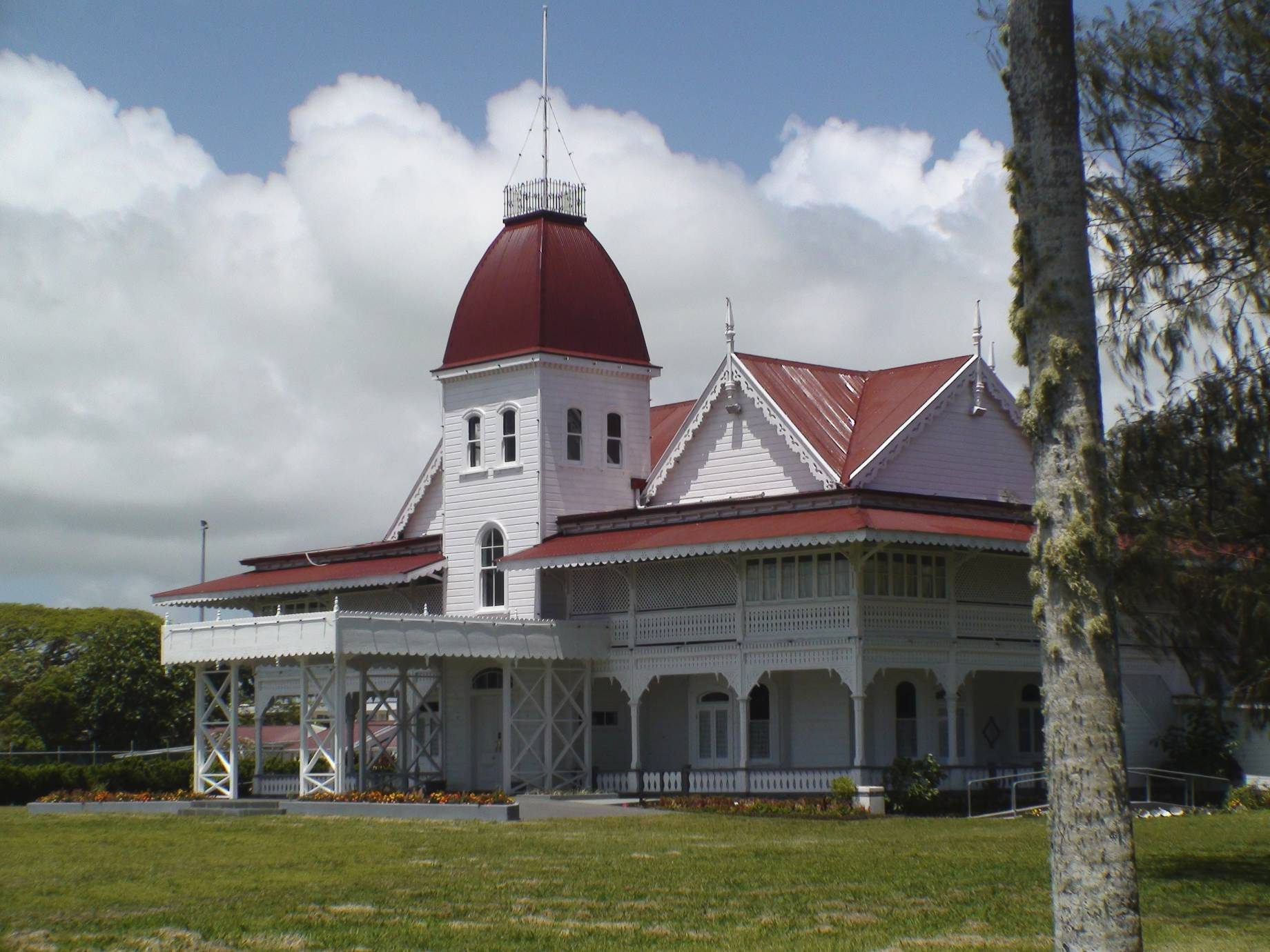 The Royal Palace, Nuku`alofa, Tonga